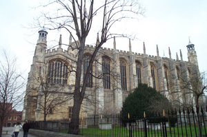 chapel of the Eton College, 2004-02-14. Copyright Kaihsu Tai